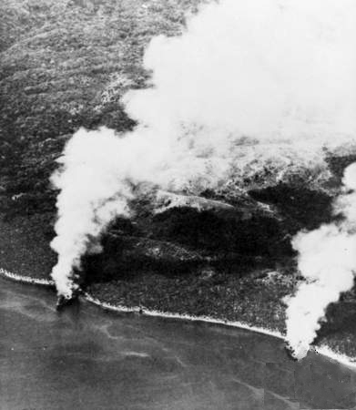 The Japanese transports Hirokawa Maru and Kinugawa Maru beached and burning after a failed resupply run to Guadalcanal on 15 November 1942.